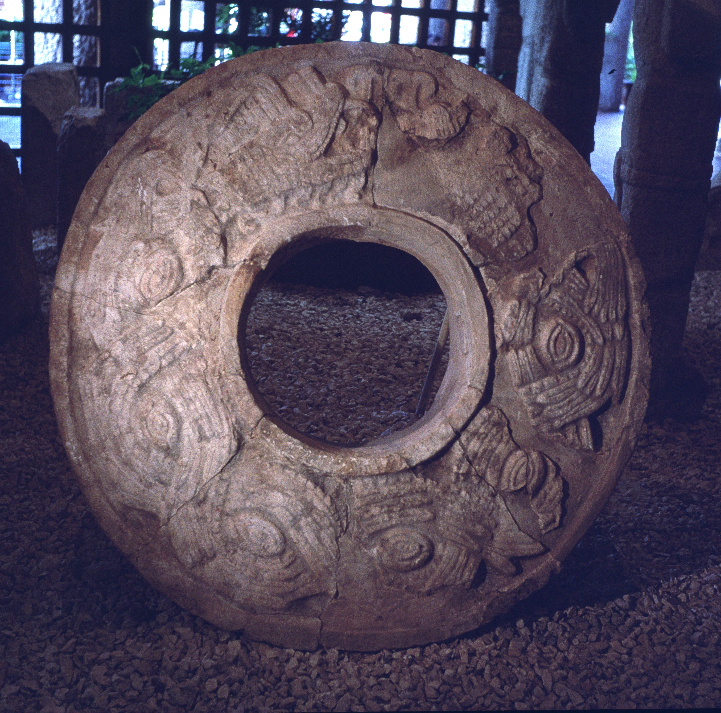 Chichen Itza, Yucatan, Mexico: Ball court marker ring (local museum)